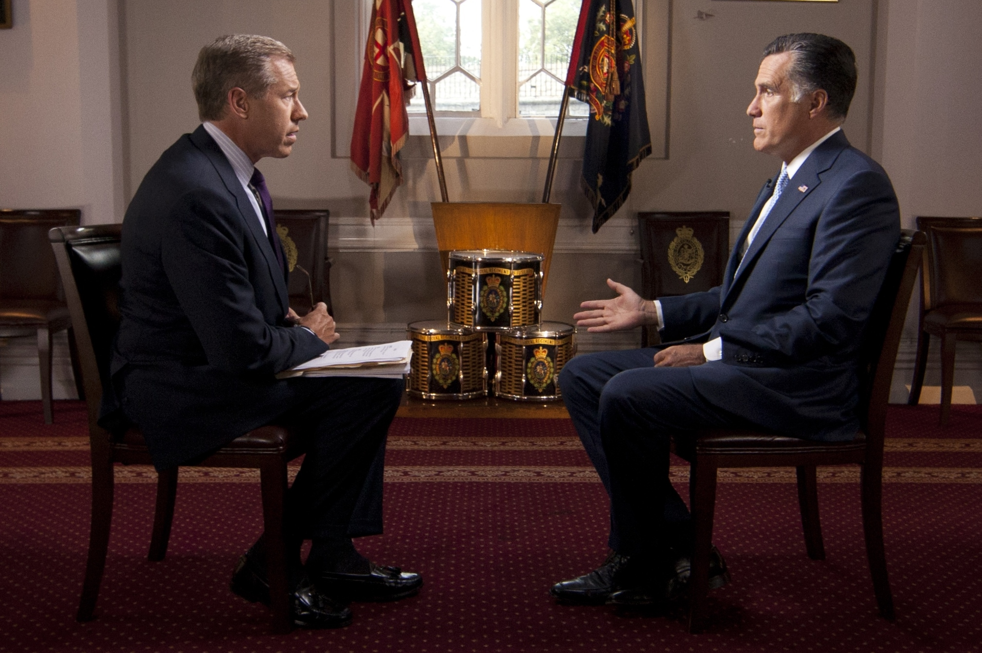 Brian Williams interviews presidential candidate Mitt Romney in London, UK, July 25, 2012. Modified from original photo.